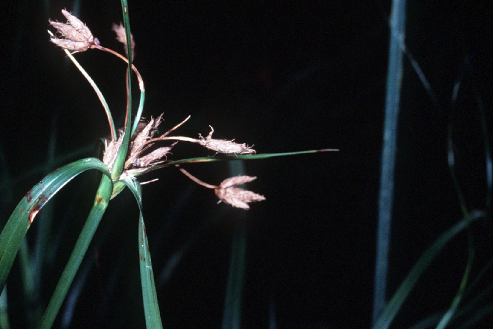 Bolboschoenus fluviatilis (Torr.) Soják - river bulrush